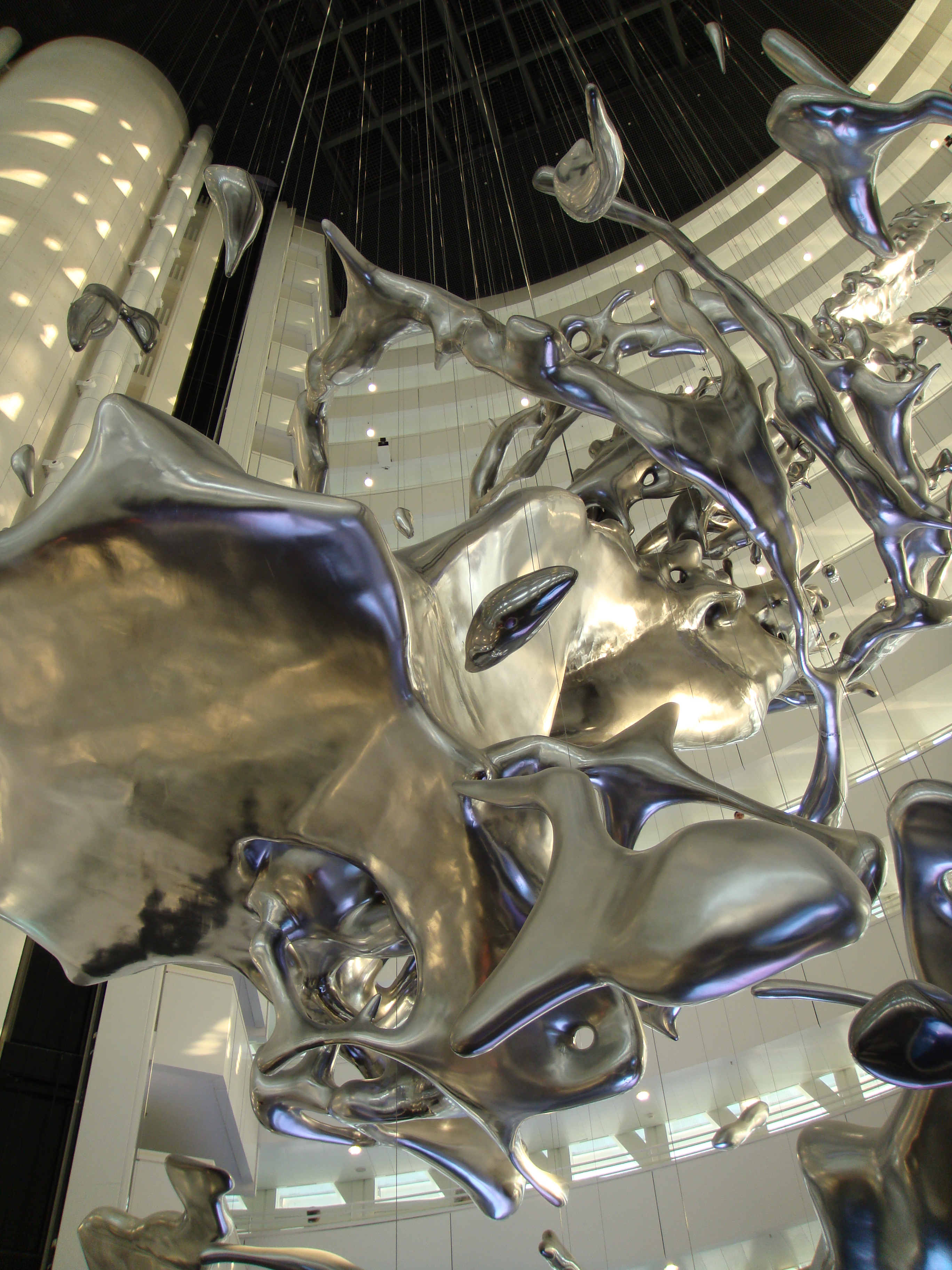 Torre del agua, Zaragoza, Expo 2008, Zaragoza, Spain